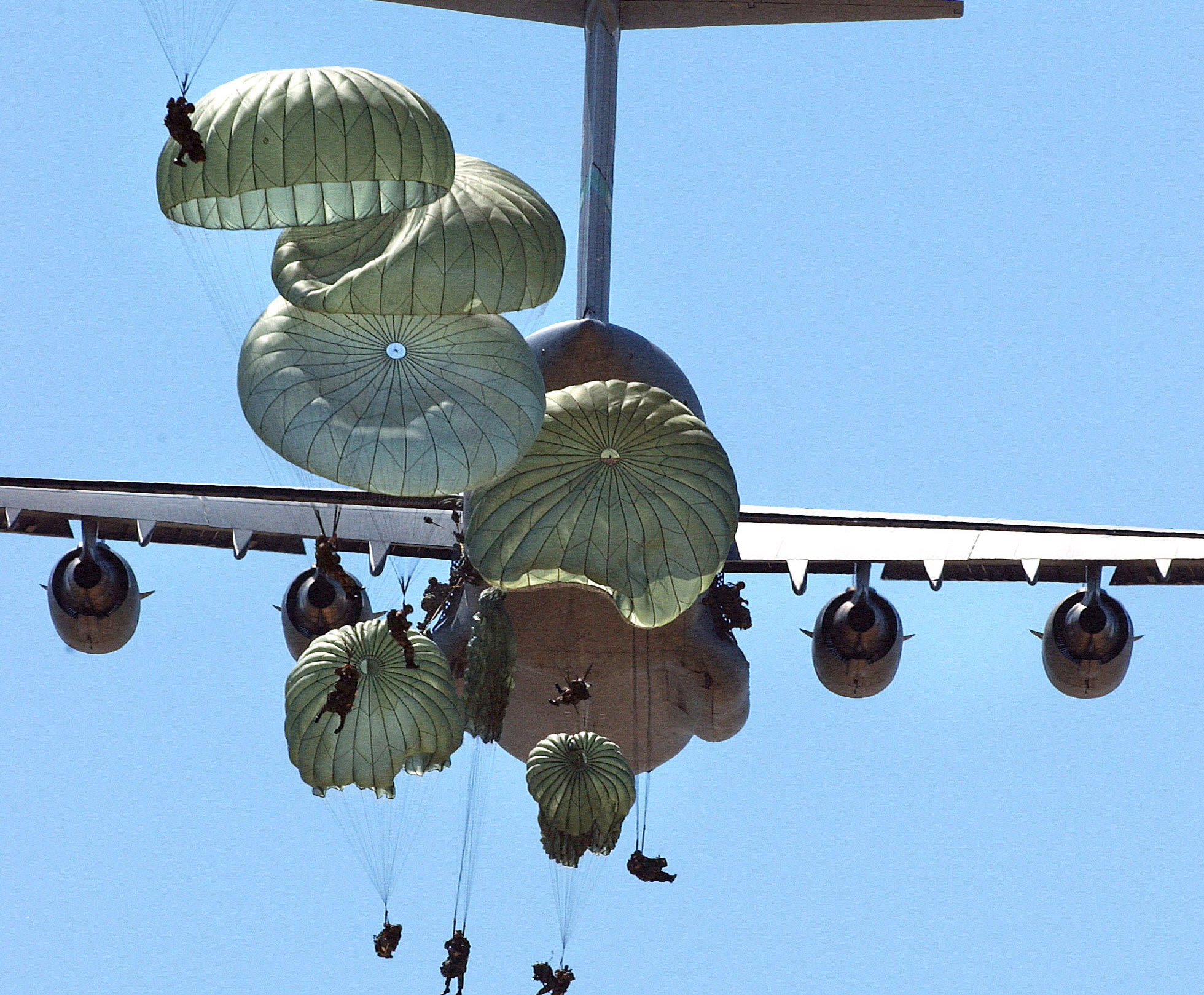 Paratroopers from the 82nd Airborne Division jump from a C17 Globemaster at Ft. Bragg, N.C., during Exercise Joint Forcible Entry.